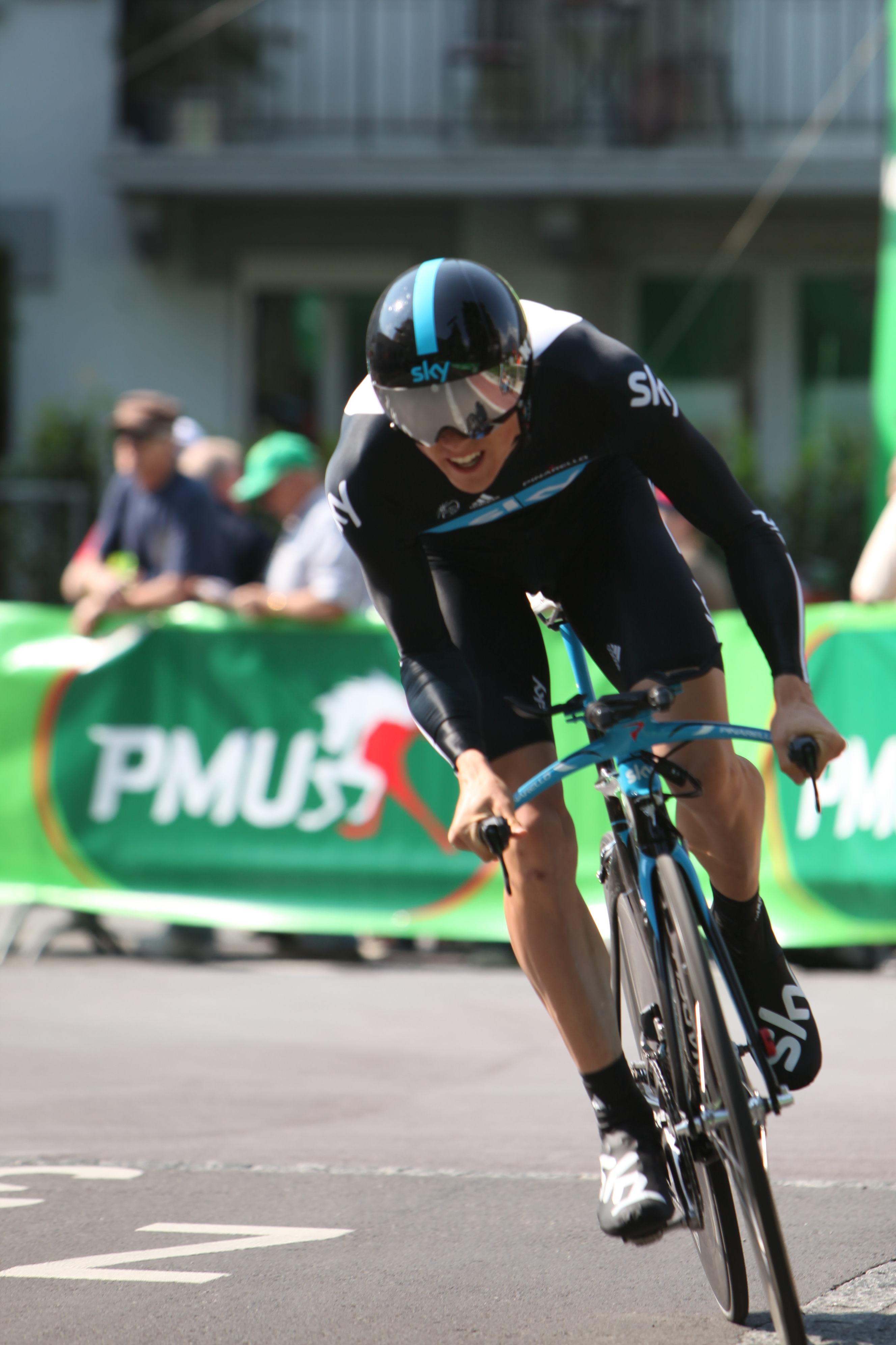 Ben Swift at the prologue of the Tour de Romandie 2011